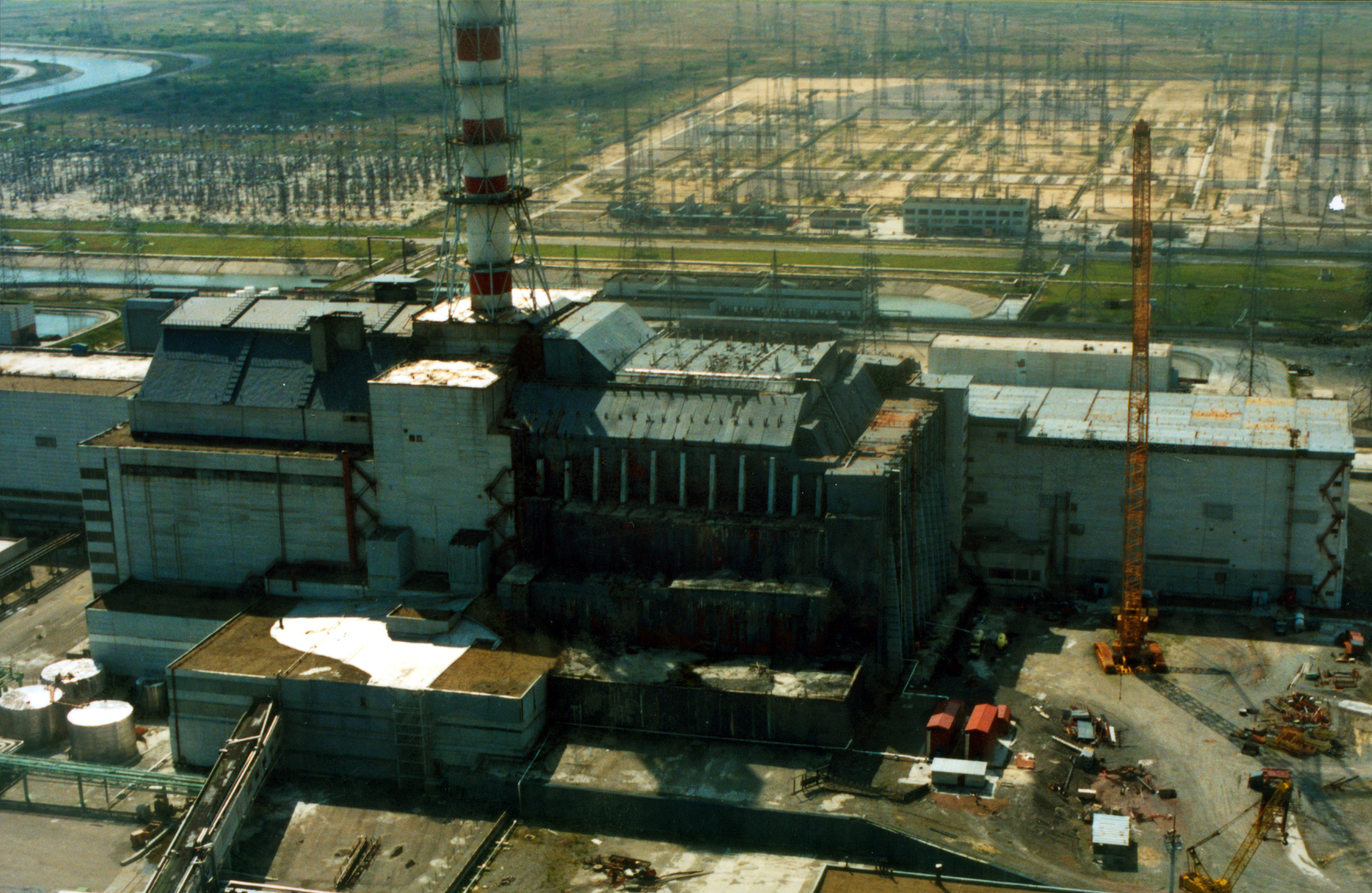 Chernobyl Nuclear Power Plant showing the sarcophagus. (Chernobyl, Ukraine) Photo Credit: Vadim Mouchkin / IAEA